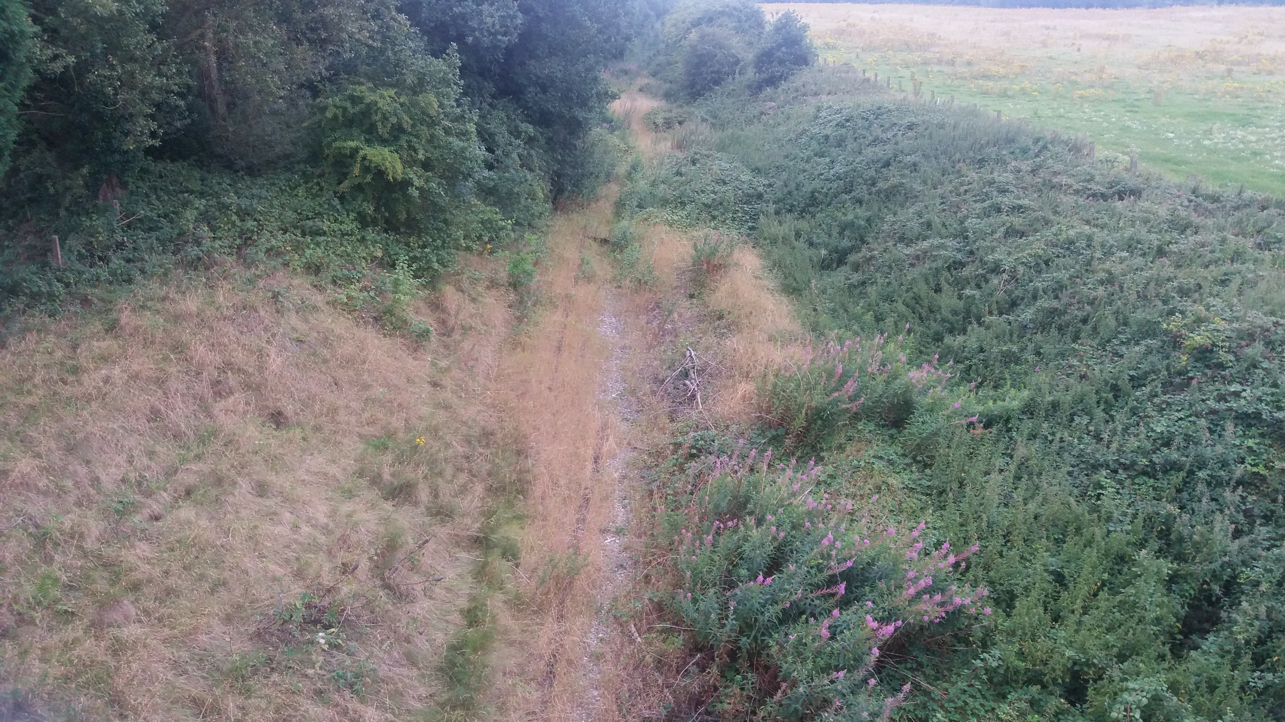 Track still in situ looking towards Brownhills at Hammerwich on the South Staffordshire line.